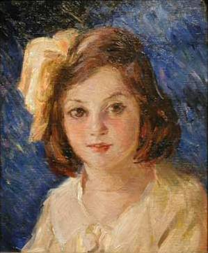 Portrait of Catharine Gaut Burton by American artist Catherine Wiley (1879–1958)